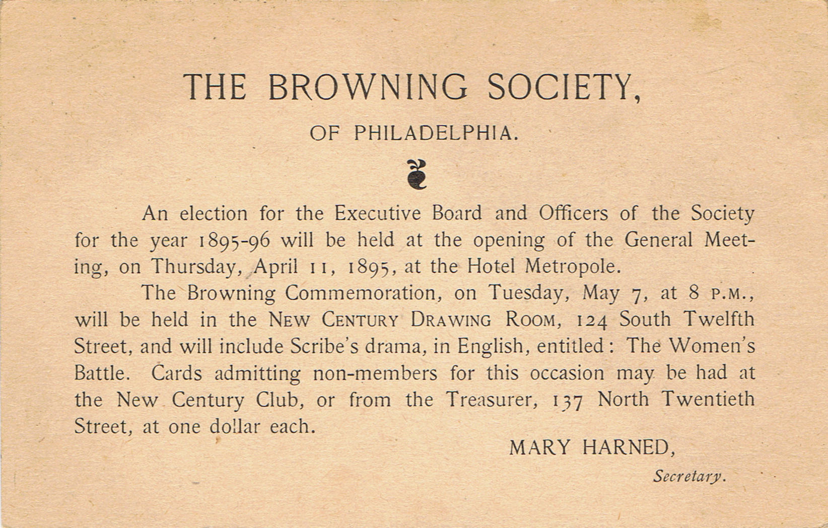 An invitation/notice addressed (on flip side) to Miss Adah J. Todd to "an election for the Executive Board and Officers of the Society for the year 1895-96", etc. Florence Earle Coates was elected President of the Browning Society of Philadelphia that year.